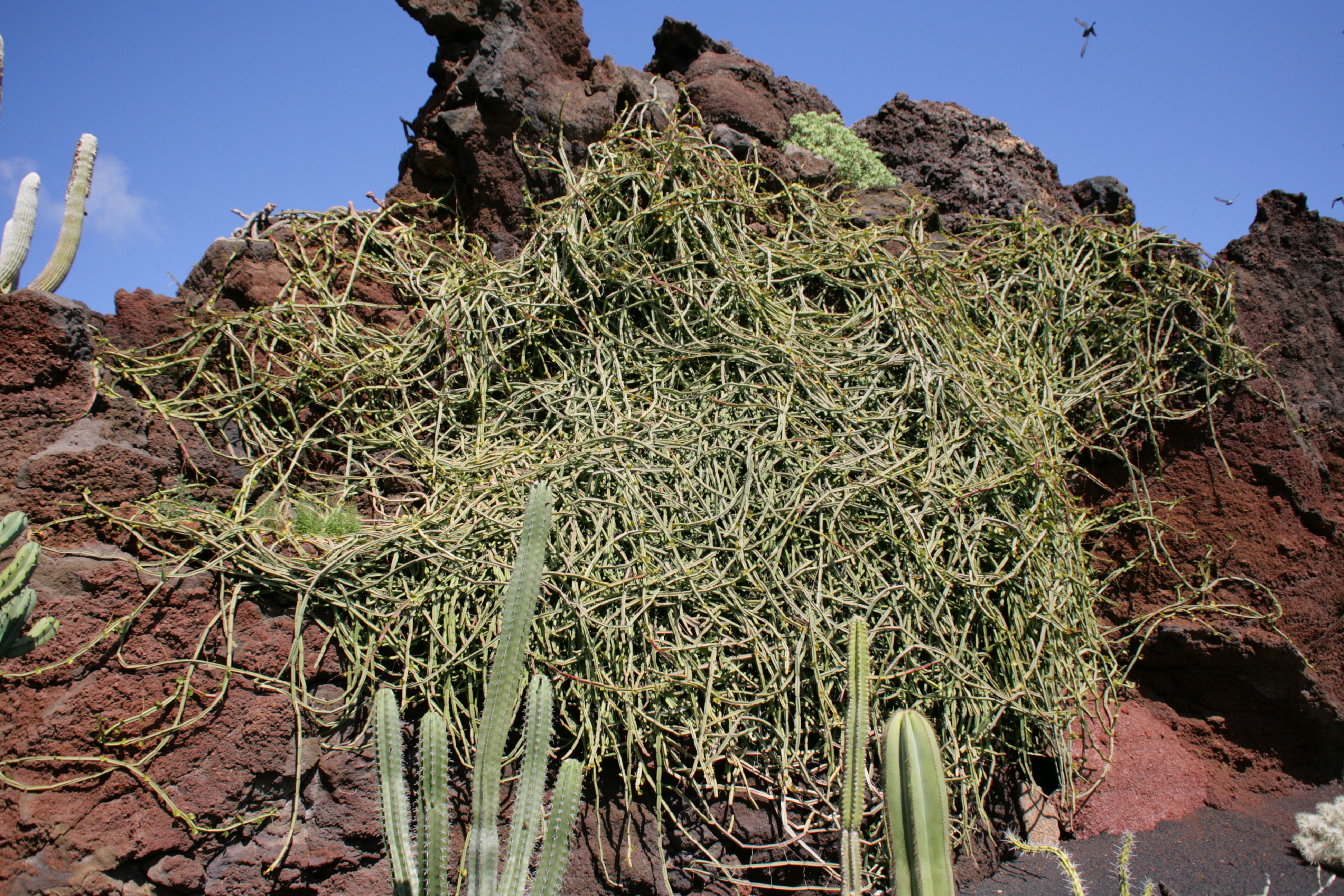 Cissus quadrangularis grown in the Botanical Garden “Jardin de Cactus” in Guatiza, Teguise, Lanzarote, Canary Islands